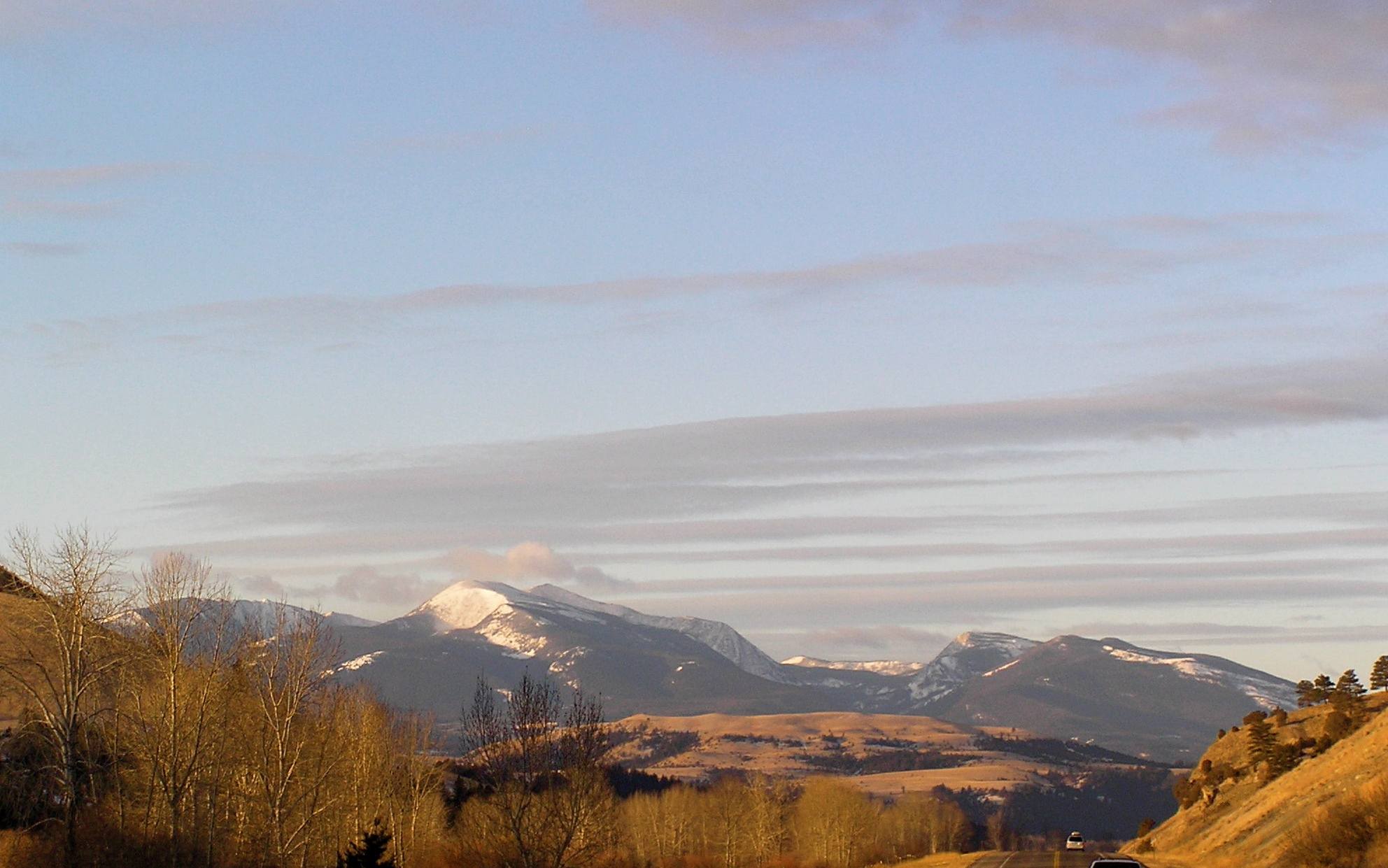 Flint Creek Range, Montana, early morning, shot from Highway 12 near Garrison, Montana